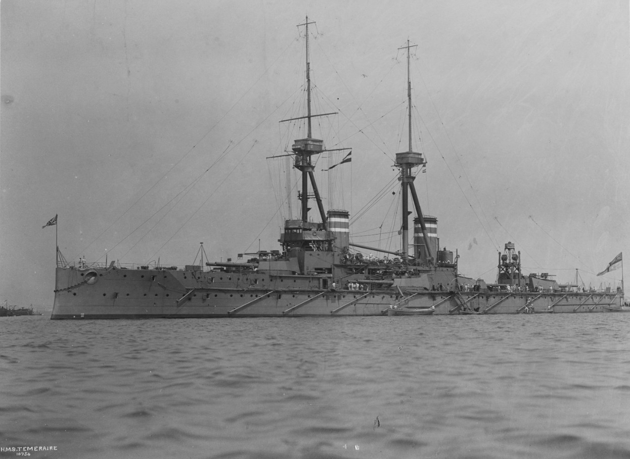 Temeraire at anchor